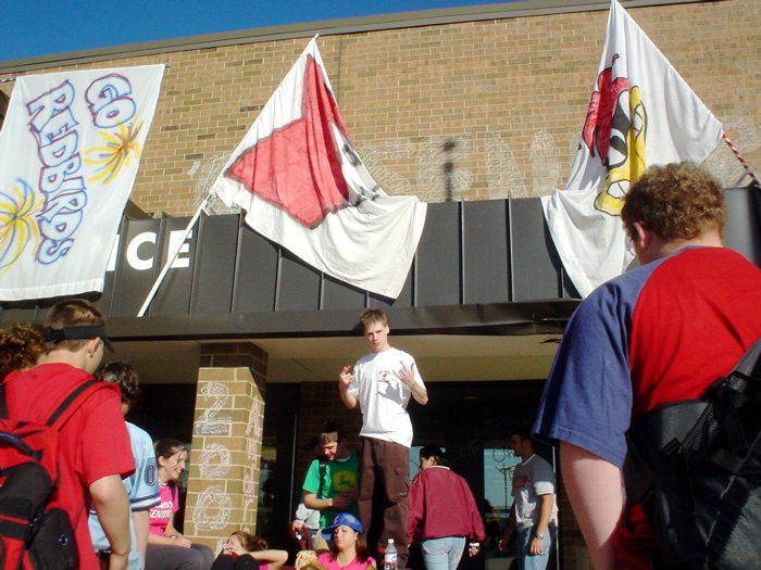 Photo taken in 2004 of the front entrance of De Pere High School.